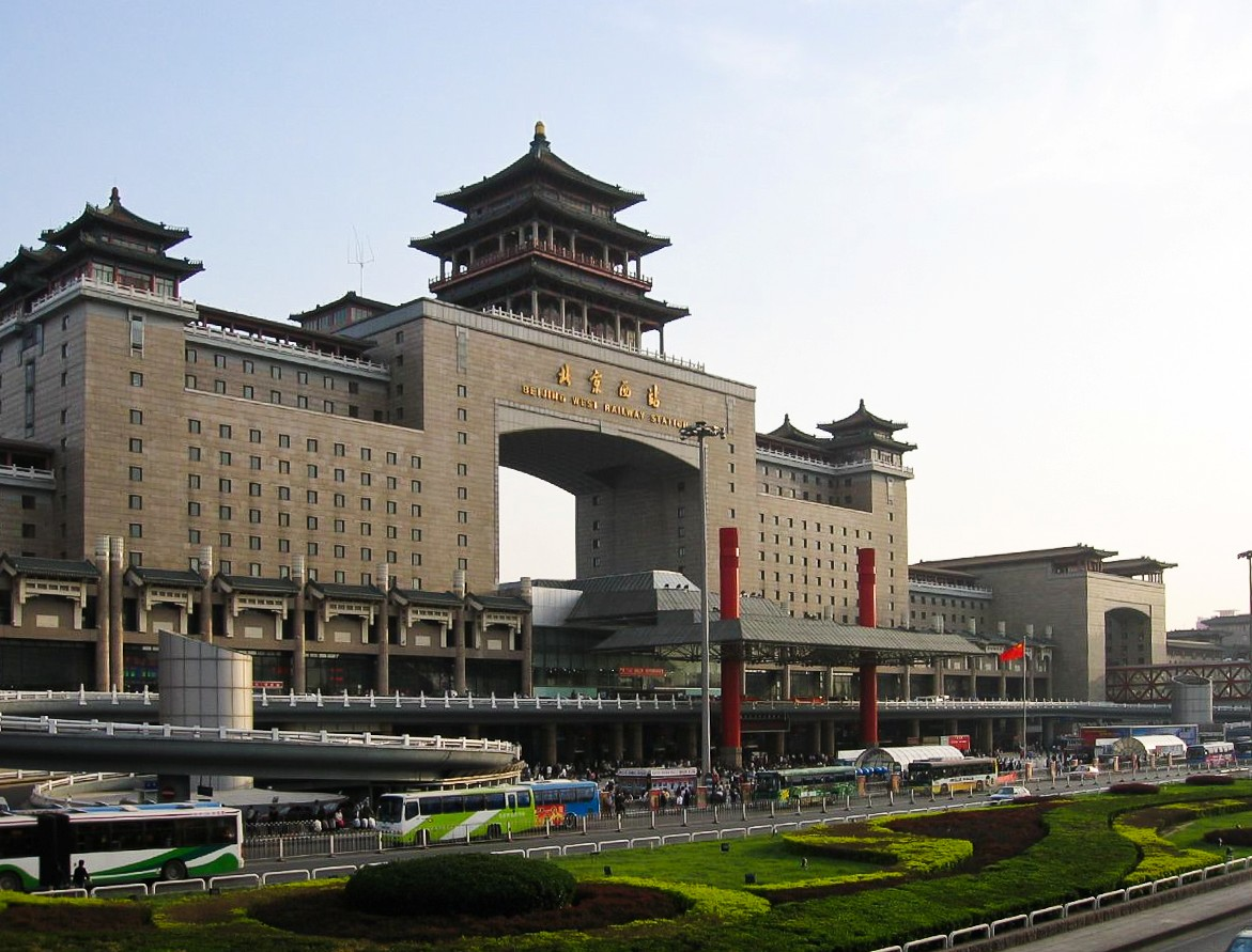 Beijing West Railway Station, China.